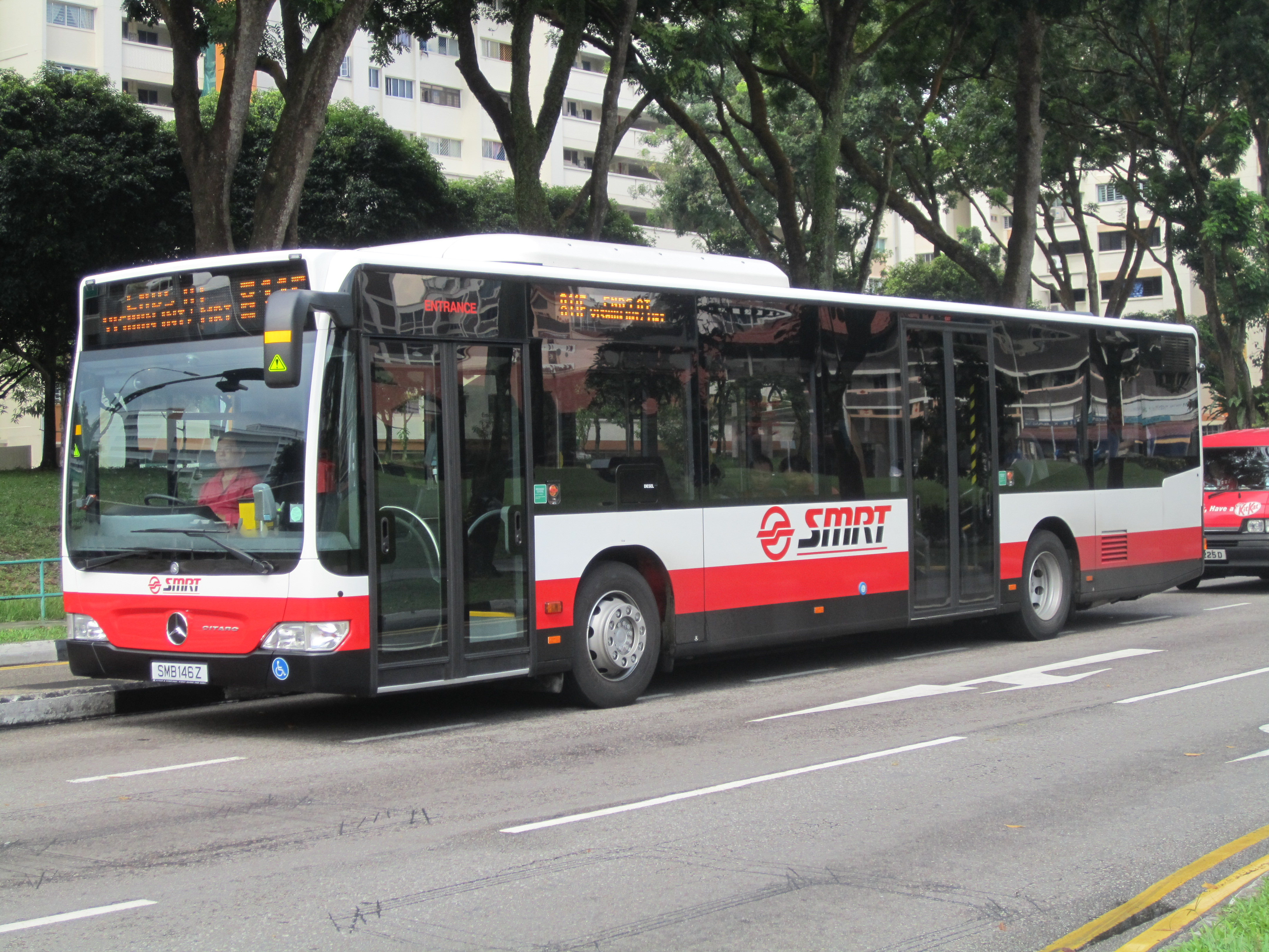 SMRT Buses Mercedes-Benz O530 Citaro Euro 5 integral bus (SMB146Z, built 2011) cameoing on line 811E, Singapore.